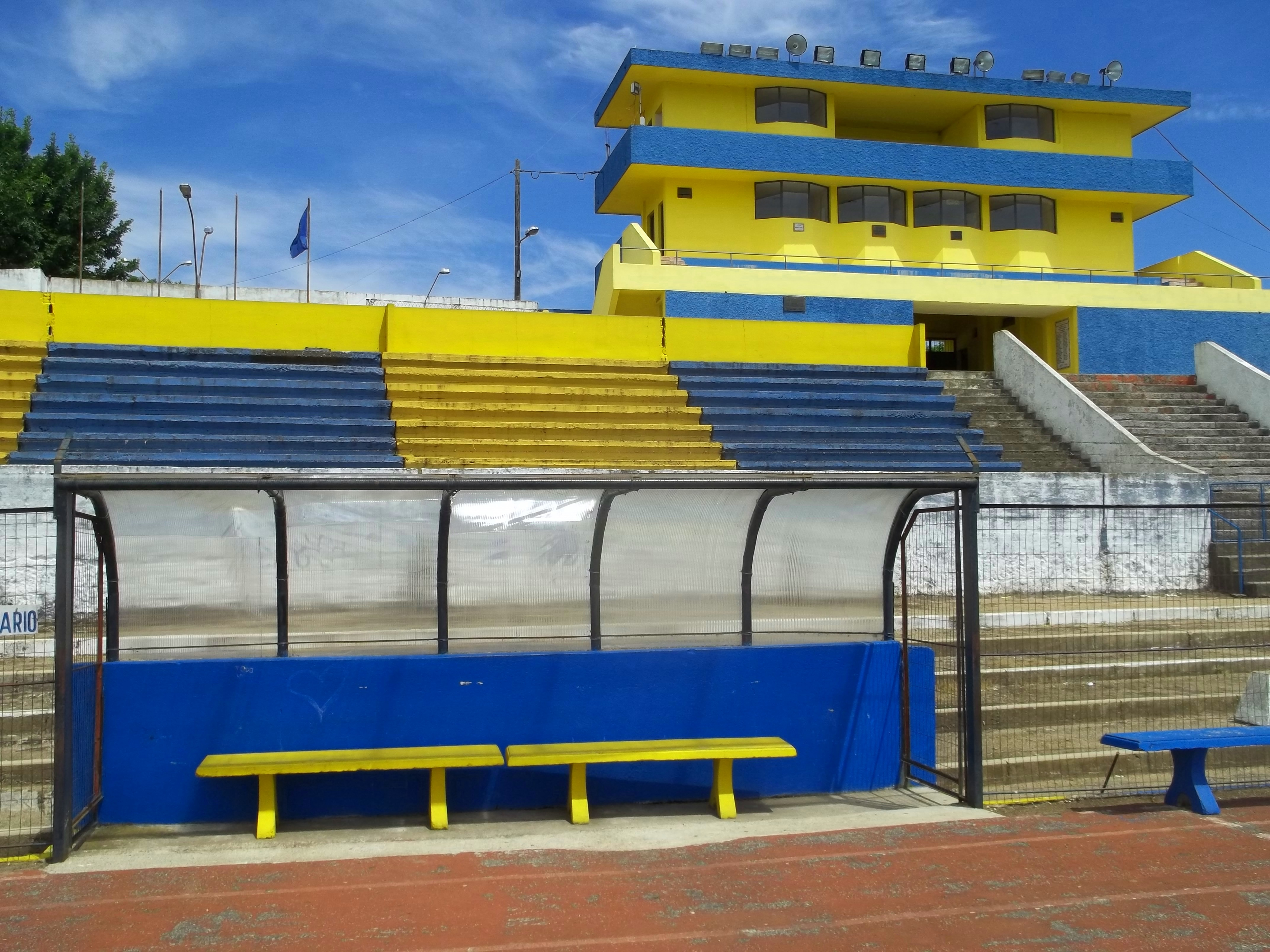 ESTADIO SILVESTRE OCTAVIO LANDONI DURAZNO FOTO 1